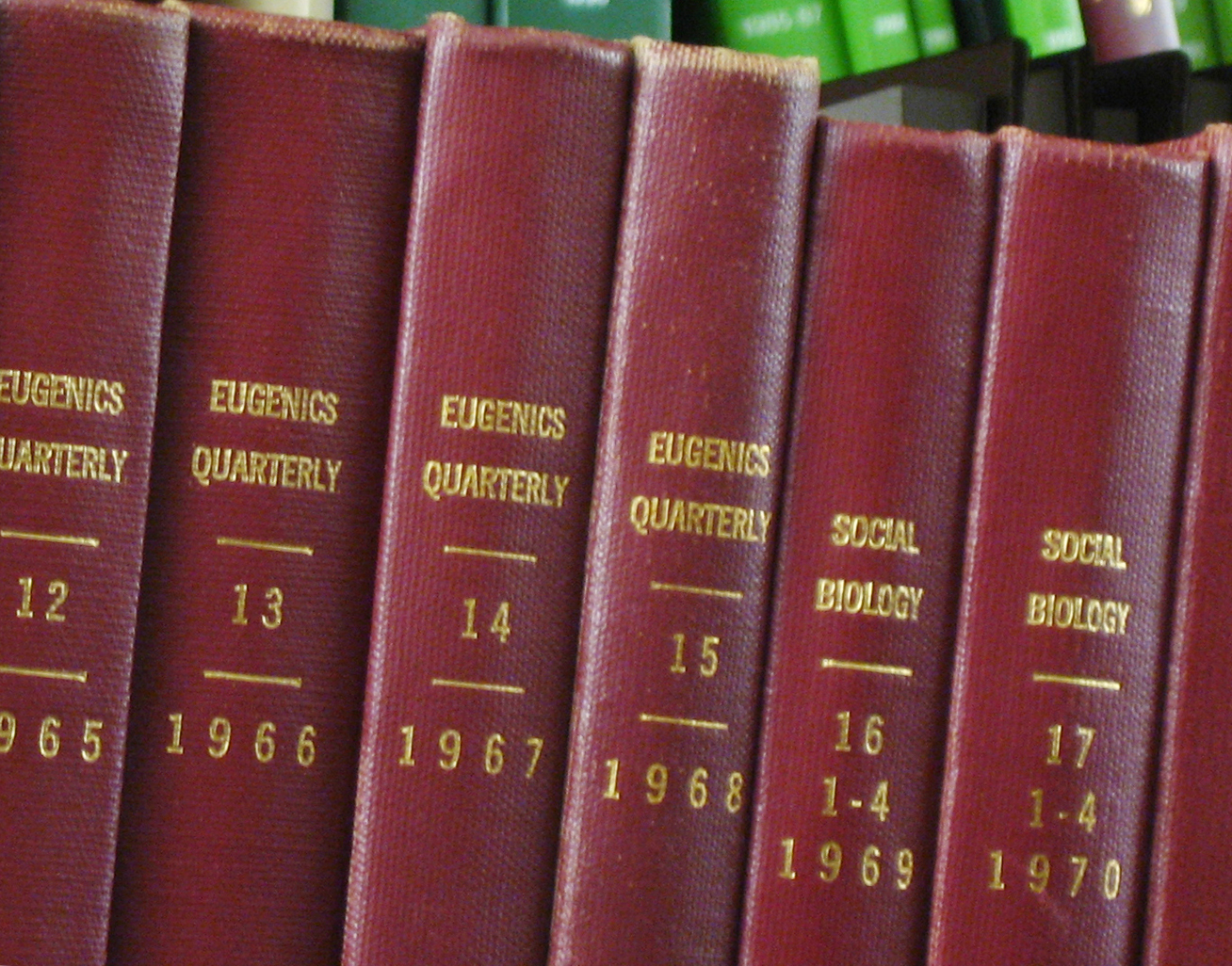 Photograph of journal bindings in an anthropology library, showing the transition where Eugenics Quarterly was renamed to Social Biology in 1969. Image is meant to evoke the ways in which eugenics eventually fell out of favor in American academia after the fall of the Nazis and changing ideas about reproductive autonomy and feminism began to take a more firm root.